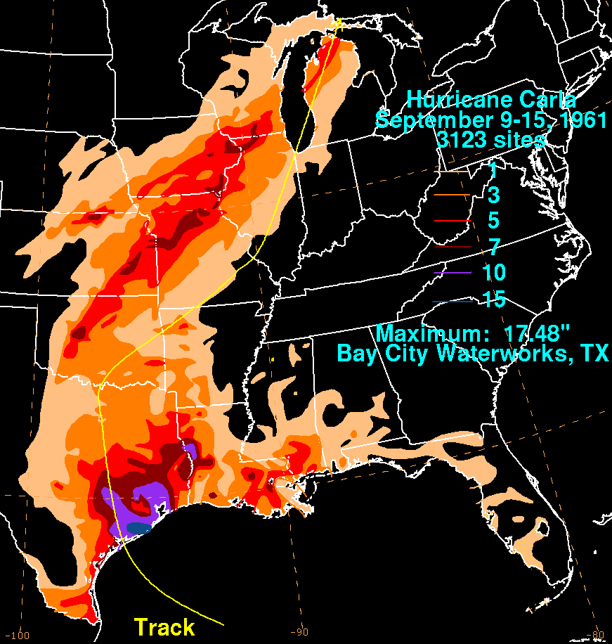 Storm total rainfall map of Hurricane Carla during September 1961.